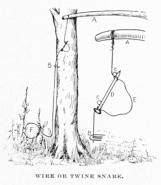 Diagram showing a wire or twine snare for trapping fox.